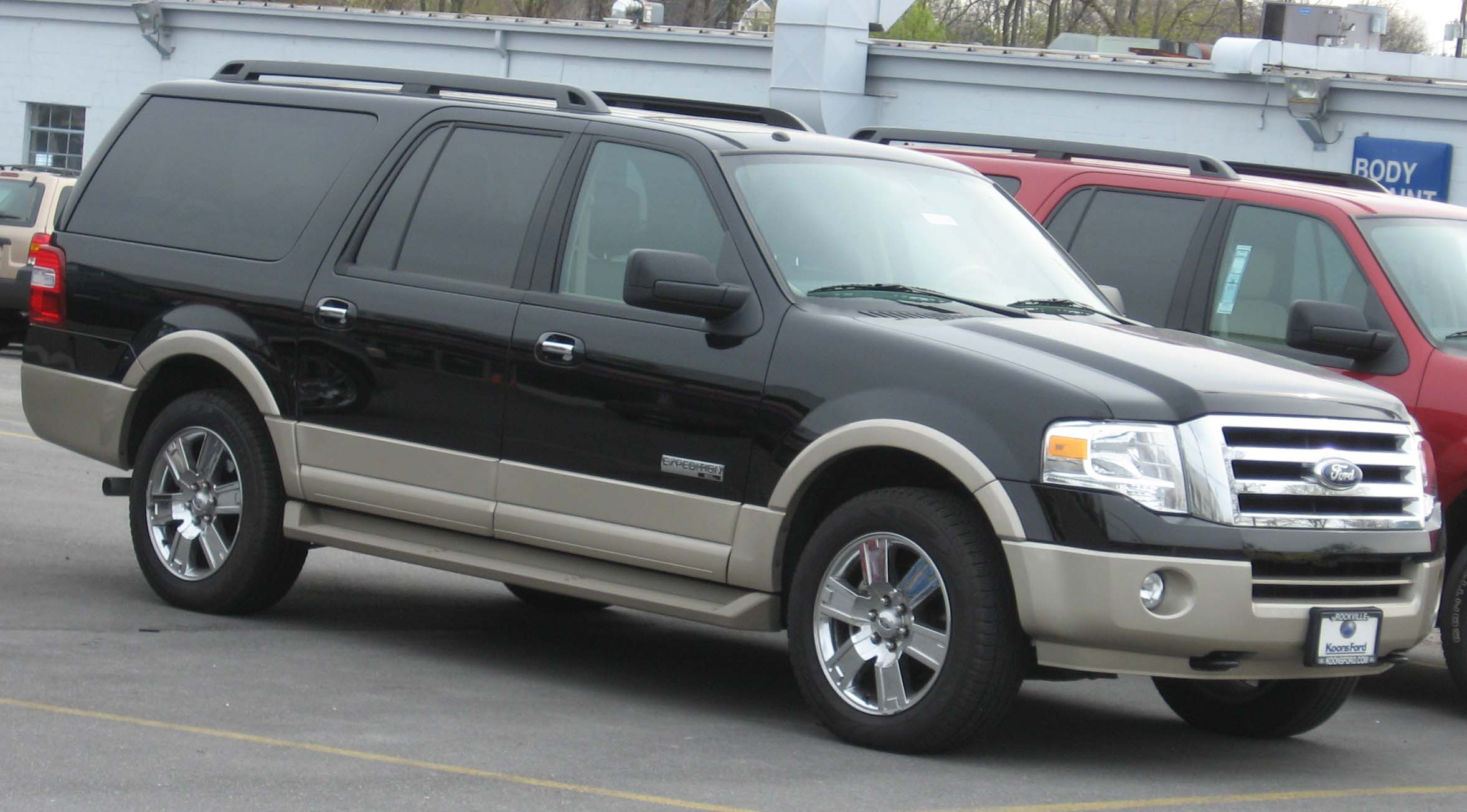 2007 Ford Expedition EL photographed in USA.